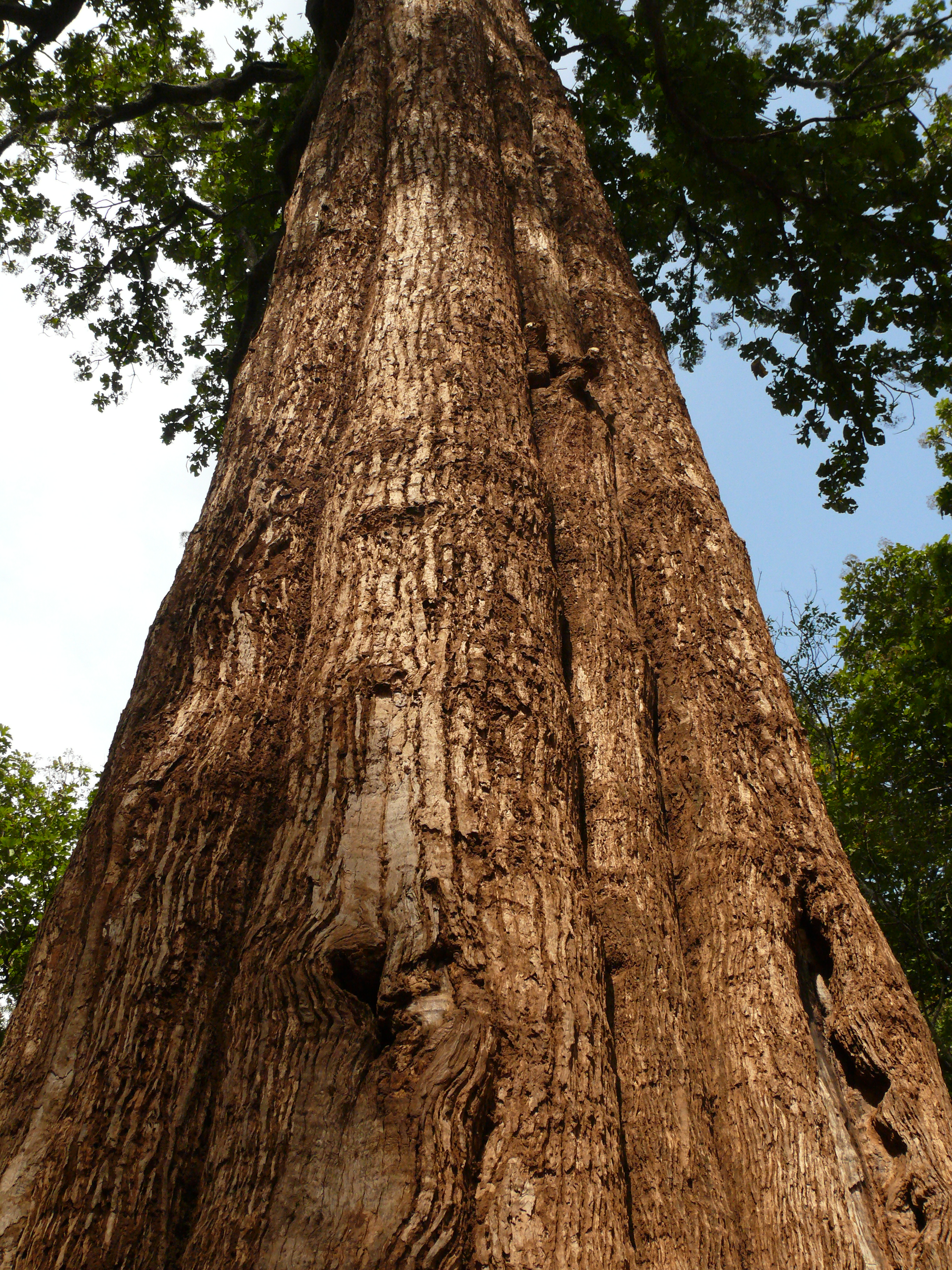 Kannimara Teak in Parambikulam Tiger Reserve on 13-01-2011